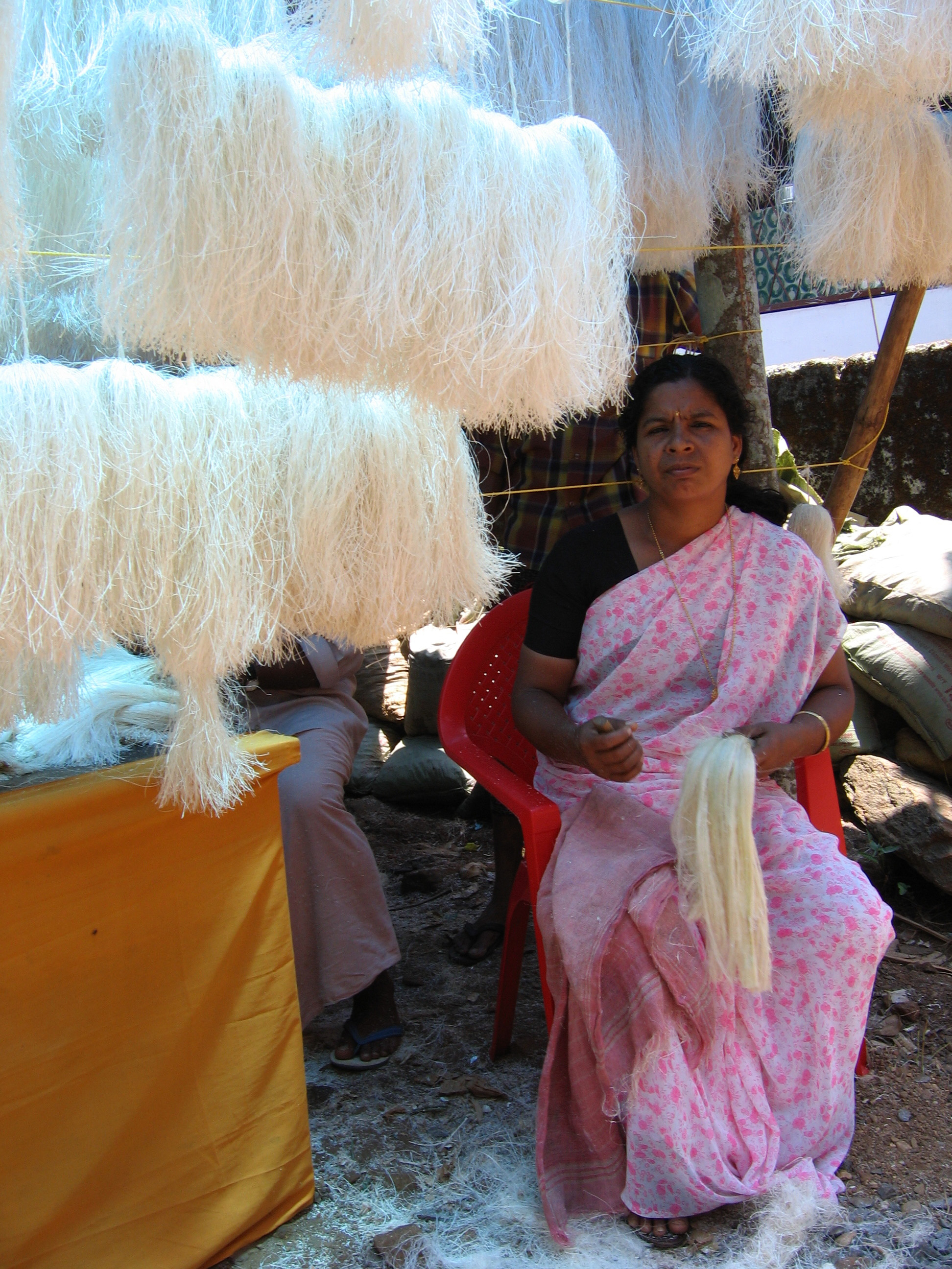 During the festival season May-June every year devotees throng to Akkare-Kottiyoor temple, which is closed for the other eleven months. Odappu, a "flower" made of bamboo pieces instantly is a thing every devotee buys from the temple to his home to be hung there for a year. Here is a shop selling the same.